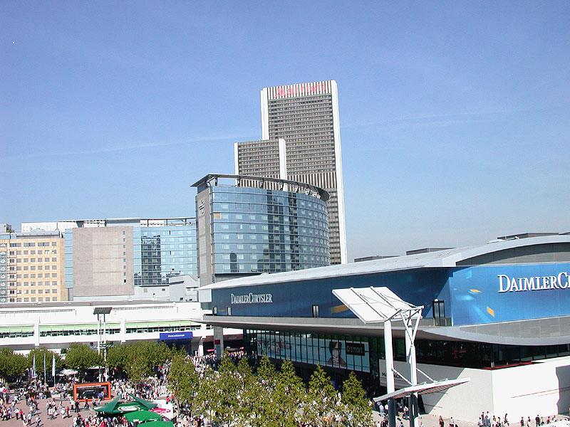 Frankfurt International Fair Photographer: User:Melkom